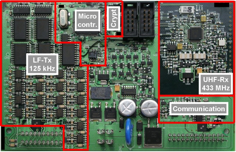 Functional units of an analysed keyless system